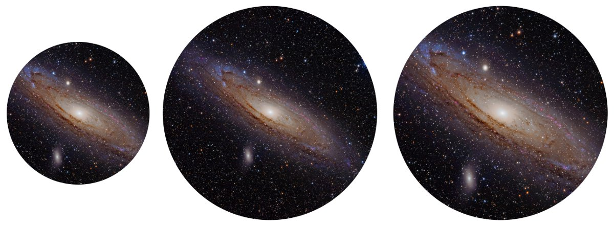 Simulation of views through various telescope eyepieces. Left image shows image through an eyepiece with a narrow apparent field of view. Centre image shows image through an eyepiece of the same focal length but wider apparent field of view, and how the image is larger and shows a greater area. Right image shows image with the same apparent field of view as the centre image, but shorter focal length giving greater magnification. The result is the same true field of view as the first image but at greater magnification.